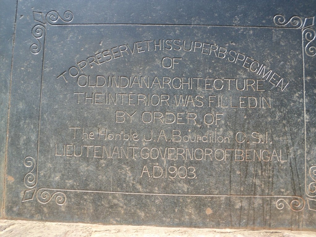 Konark Sun Temple is a 13th century Sun Temple (also known as the Black Pagoda), at Konark, in Orissa. It was constructed from oxidized and weathered ferruginous sandstone by King Narasimhadeva I (1238-1250 CE) of the Eastern Ganga Dynasty. The temple is an example of Orissan architecture of Ganga dynasty . The temple is one of the most renowned temples in India and is a World Heritage Site.